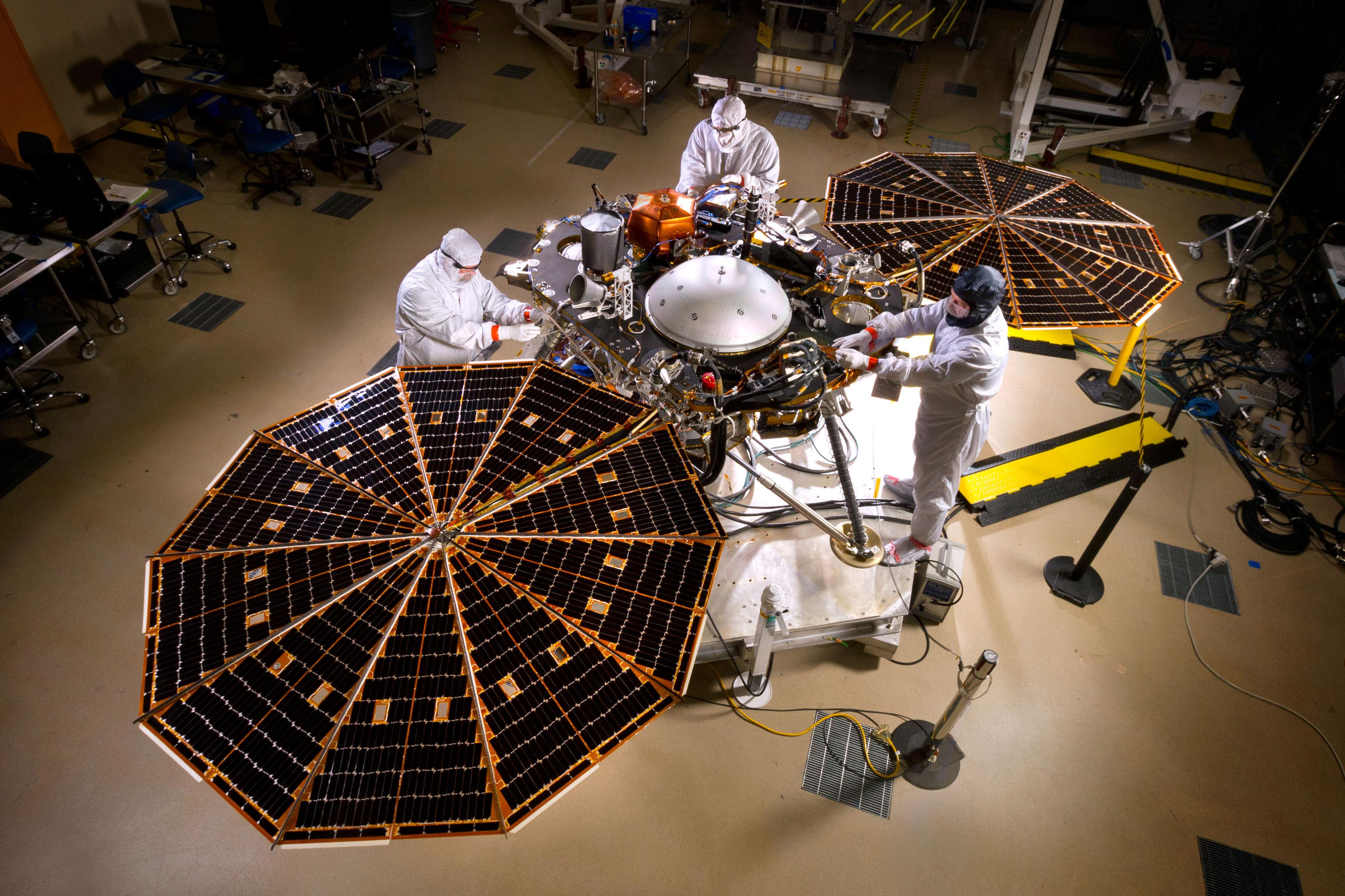 PIA19664: InSight Lander in Mars-Surface Configuration The solar arrays on NASA's InSight lander are deployed in this test inside a clean room at Lockheed Martin Space Systems, Denver. This configuration is how the spacecraft will look on the surface of Mars. The image was taken on April 30, 2015. InSight, for Interior Exploration Using Seismic Investigations, Geodesy and Heat Transport, is scheduled for launch in March 2016 and landing in September 2016. It will study the deep interior of Mars to advance understanding of the early history of all rocky planets, including Earth. The InSight Project is managed by NASA's Jet Propulsion Laboratory, Pasadena, California, for the NASA Science Mission Directorate, Washington. InSight is part of NASA's Discovery Program, which is managed by NASA's Marshall Space Flight Center in Huntsville, Alabama.